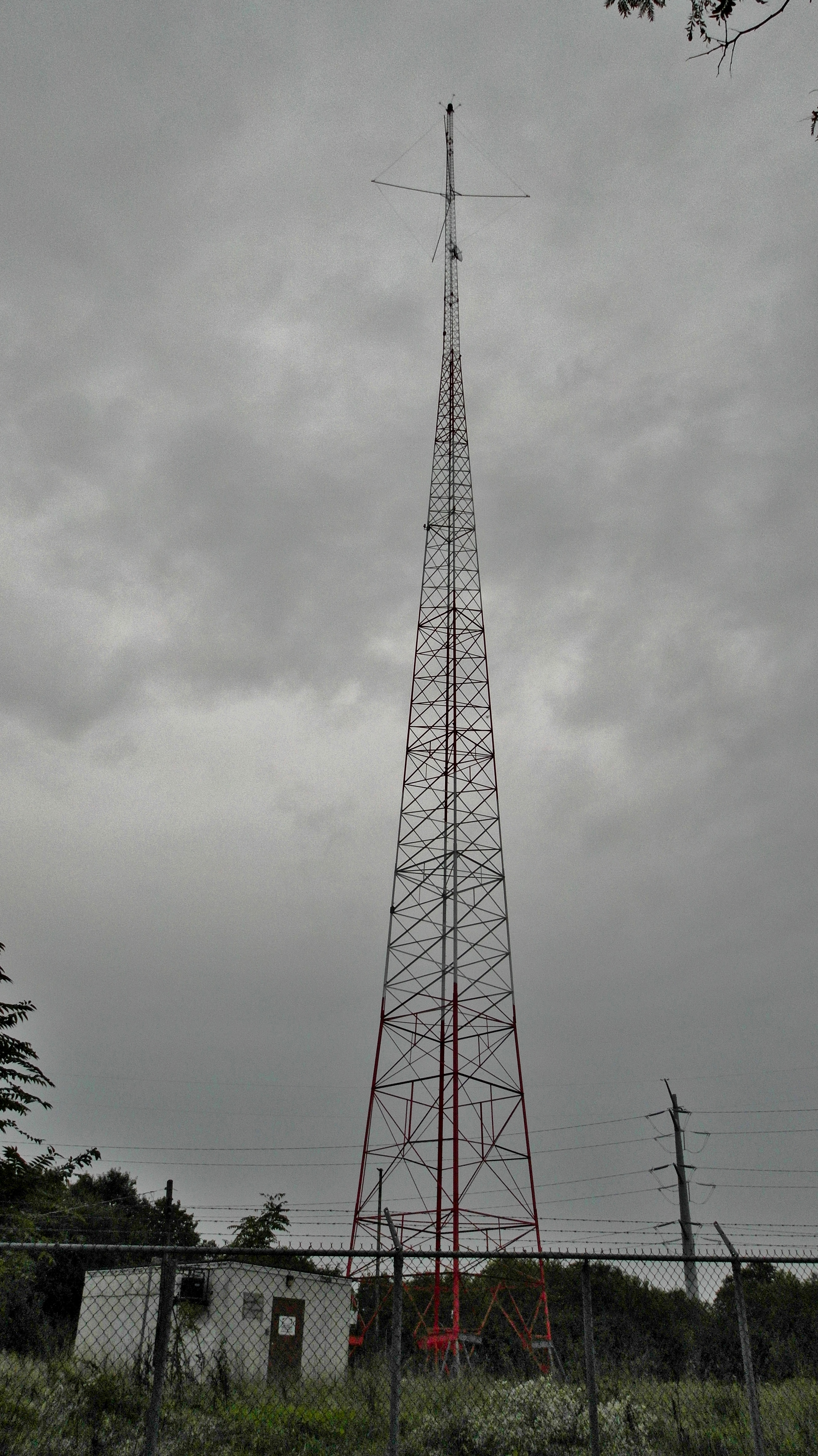 Tower and transmitter building of AM 1450 WCEV and WRLL (formerly WVON).